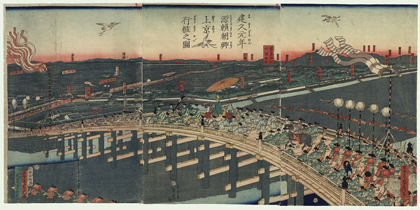 Shogun Minamoto no Yoritomo's procession to Kyoto at the founding of the Kamakura Shogunate -- woodblock print by Utagawa Sadahide, circa 1860